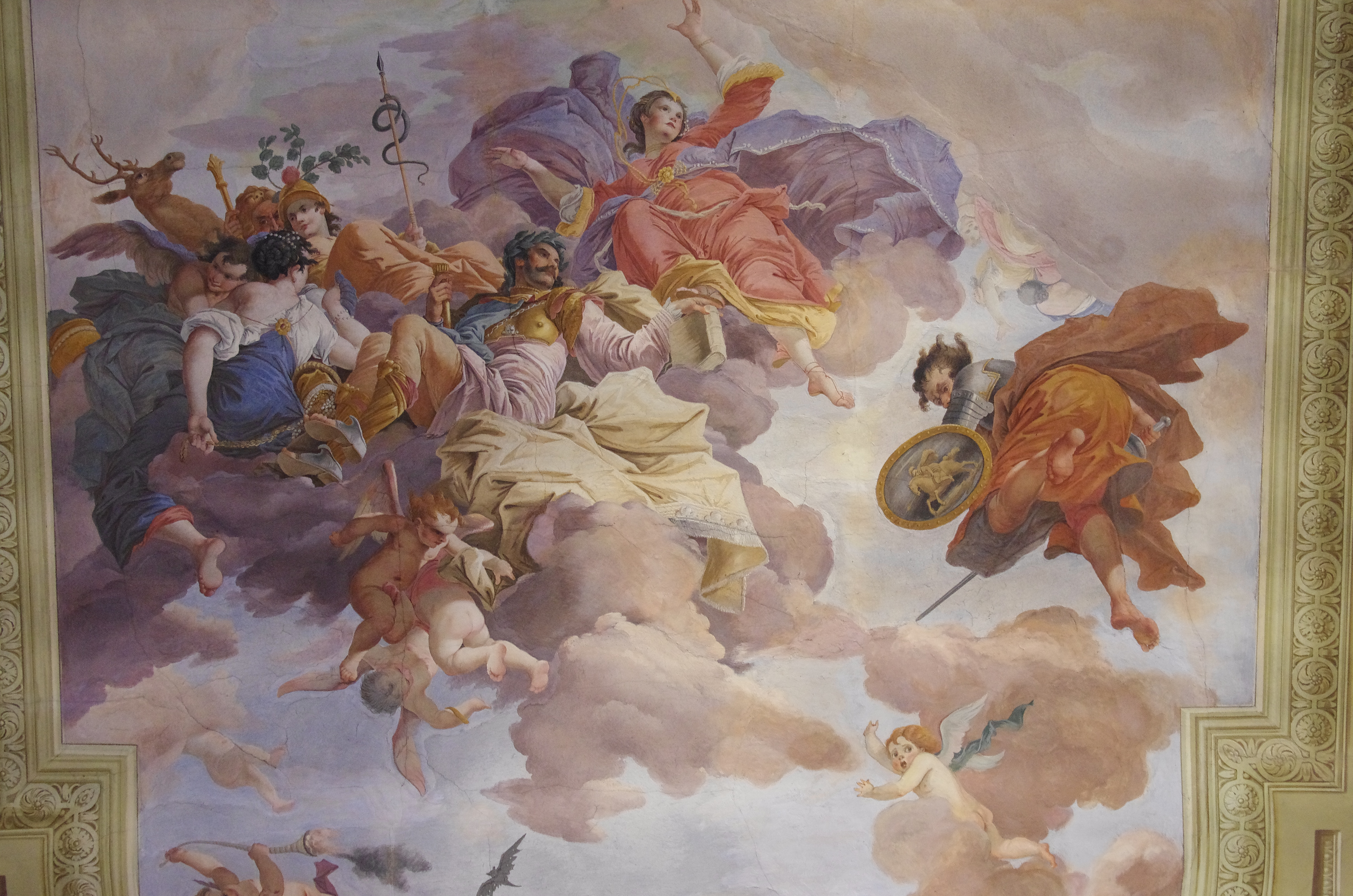 24mar2019 Salone delle feste - pittori Pio Piatti e Carlo Ederle - Palazzo Balladoro - Corso Cavour Verona n41 - Photo Paolo Villa - FAI primavera 2019